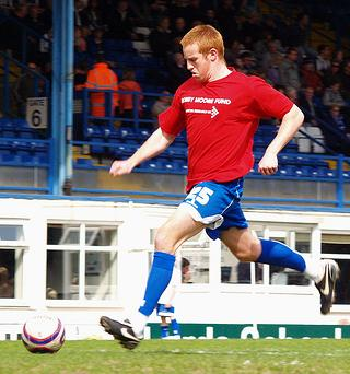 Irish footballer Adam Rooney